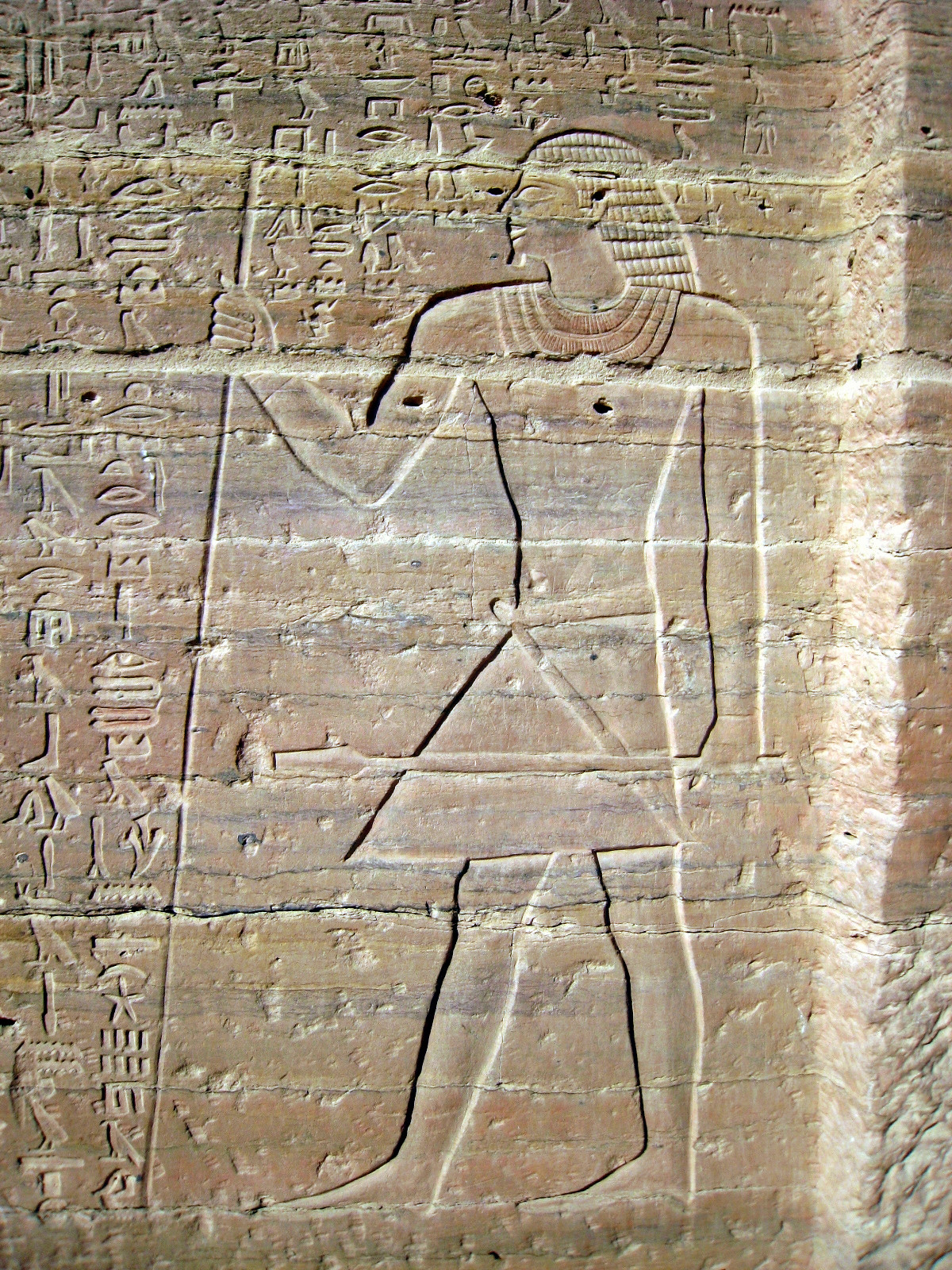 Qubbet el-Hawa IMG_6385